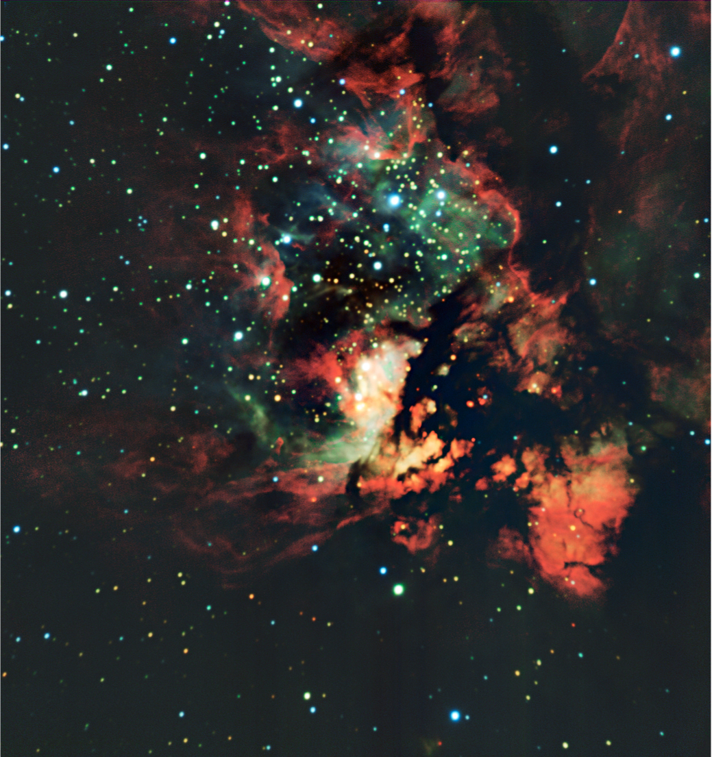 Located 9 000 light-years away, NGC 3576 is a gigantic region of glowing gas about 100 light-years across, where stars are currently forming. The intense radiation and winds from the massive stars are shredding the clouds from which they form, creating dramatic scenery. The black area in the right middle part of the image is dark because of the presence of very dense, opaque clouds of gas and dust. The data used to make this colour-composite images were taken with ISAAC on the VLT, in the framework of observing proposal 079.C-0203(A). The image processing was done by Yuri Beletsky (ESO) and Hännes Heyer (ESO). It is based on data taken through 4 different narrow-band filters centred around 1.21, 1.71, 2.09 and 3.28 microns.